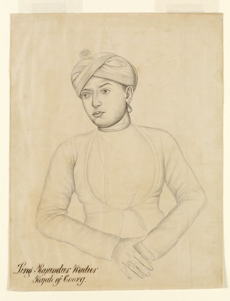 Portrait of Linga Rajendra II (r.1811 - 1820)